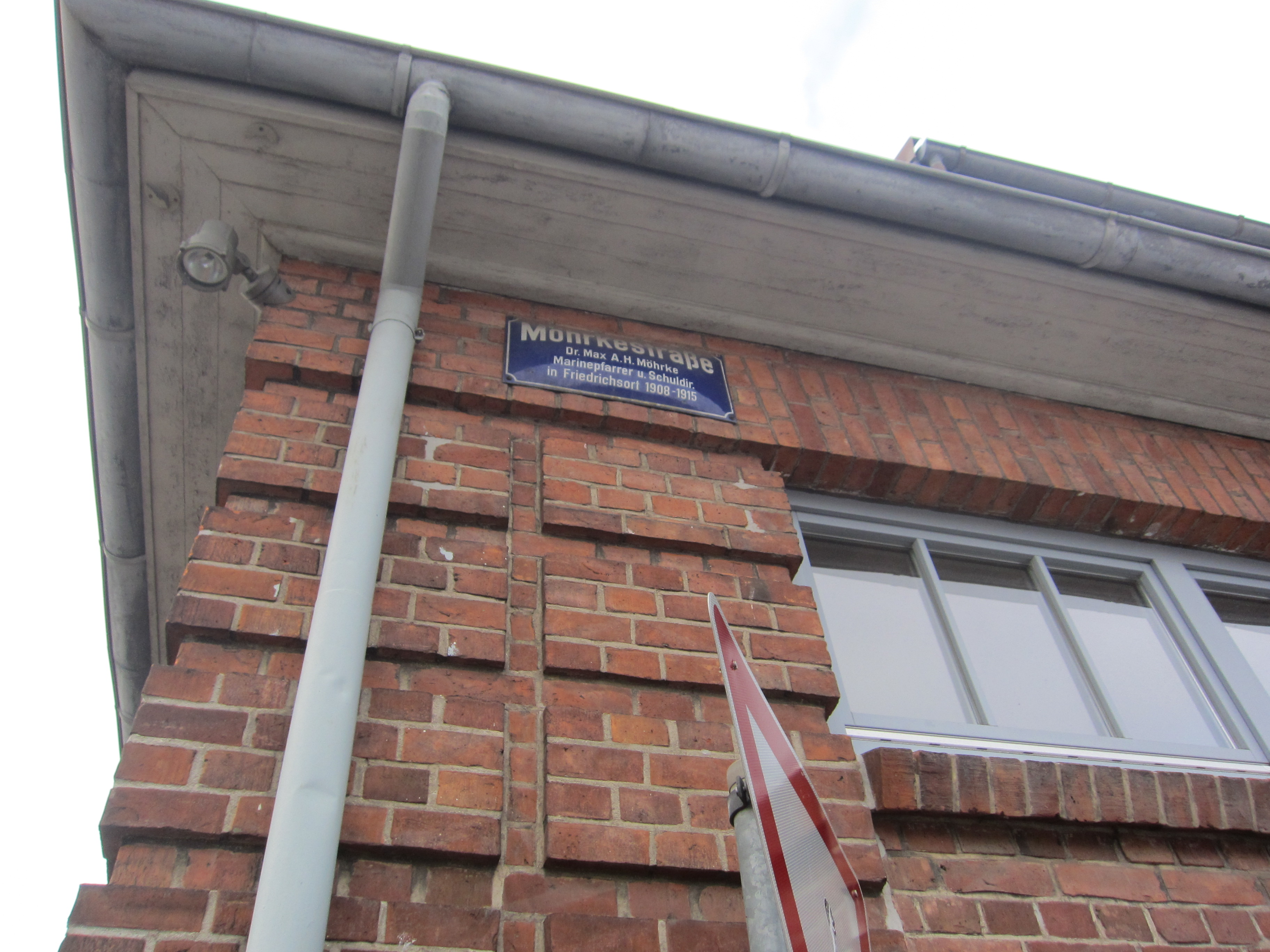 Street sign "Möhrkestraße" in Kiel-Friedrichsort